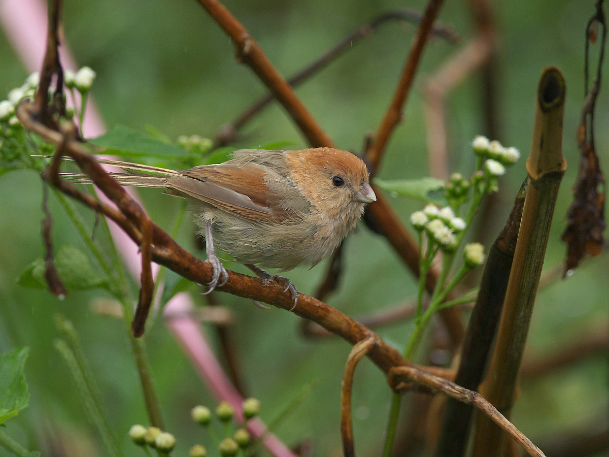 Vinous-throated Parrotbill, of the subspecies Paradoxornis webbiana bulomacha, in Taiwan.